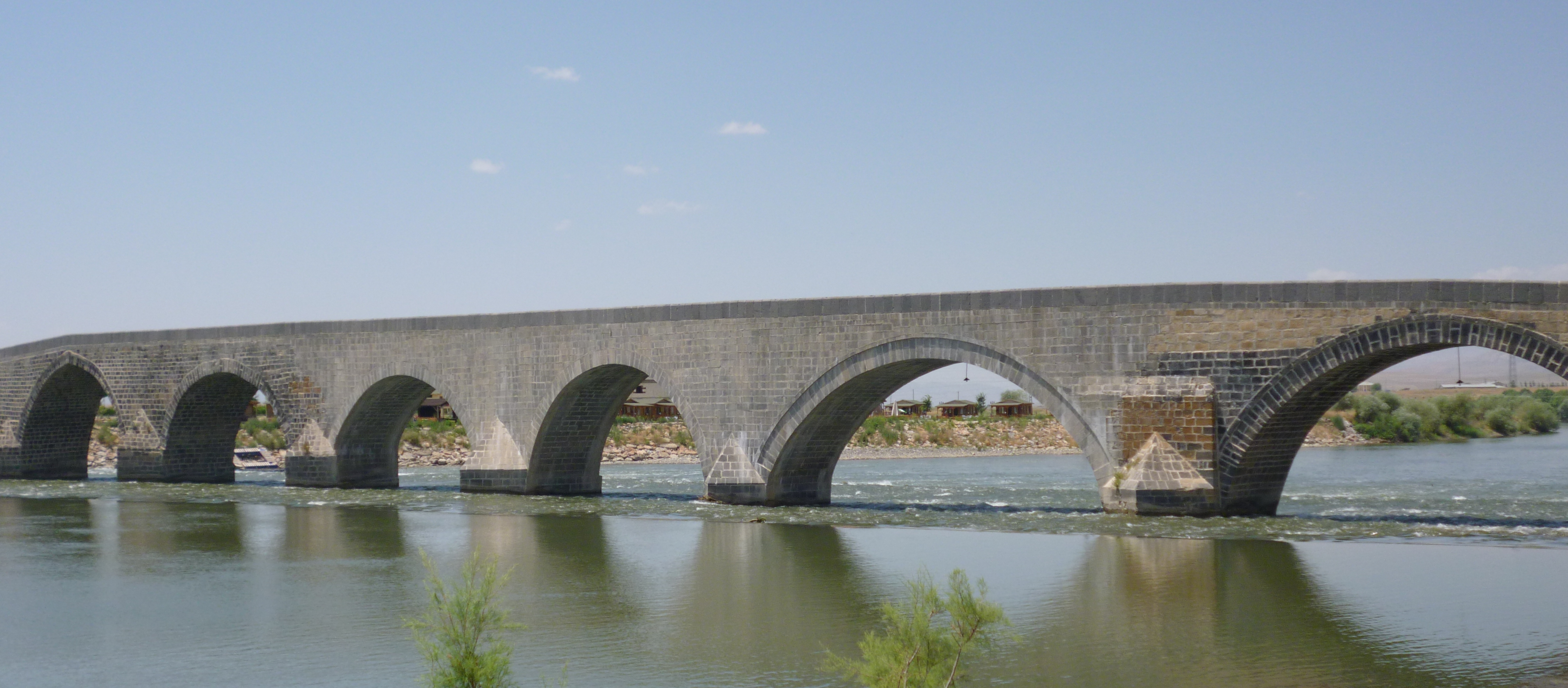 Sulukh bridge-5